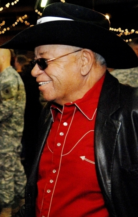 Coaches Bill Yoast (center) and Herman Boone (right) tell Karen McGuiness the history of their participation during a special barbecue designed to honor both Soldier-heroes and players. The two coaches were highlighted in the movie "Remember the Titans."